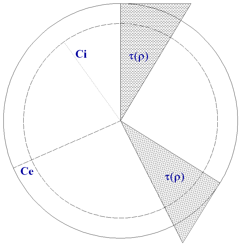 Distribution of tau on a section of a cylindric bar under torsion